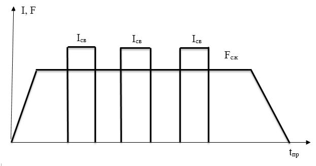 Циклограмма прерывистой шовной сварки